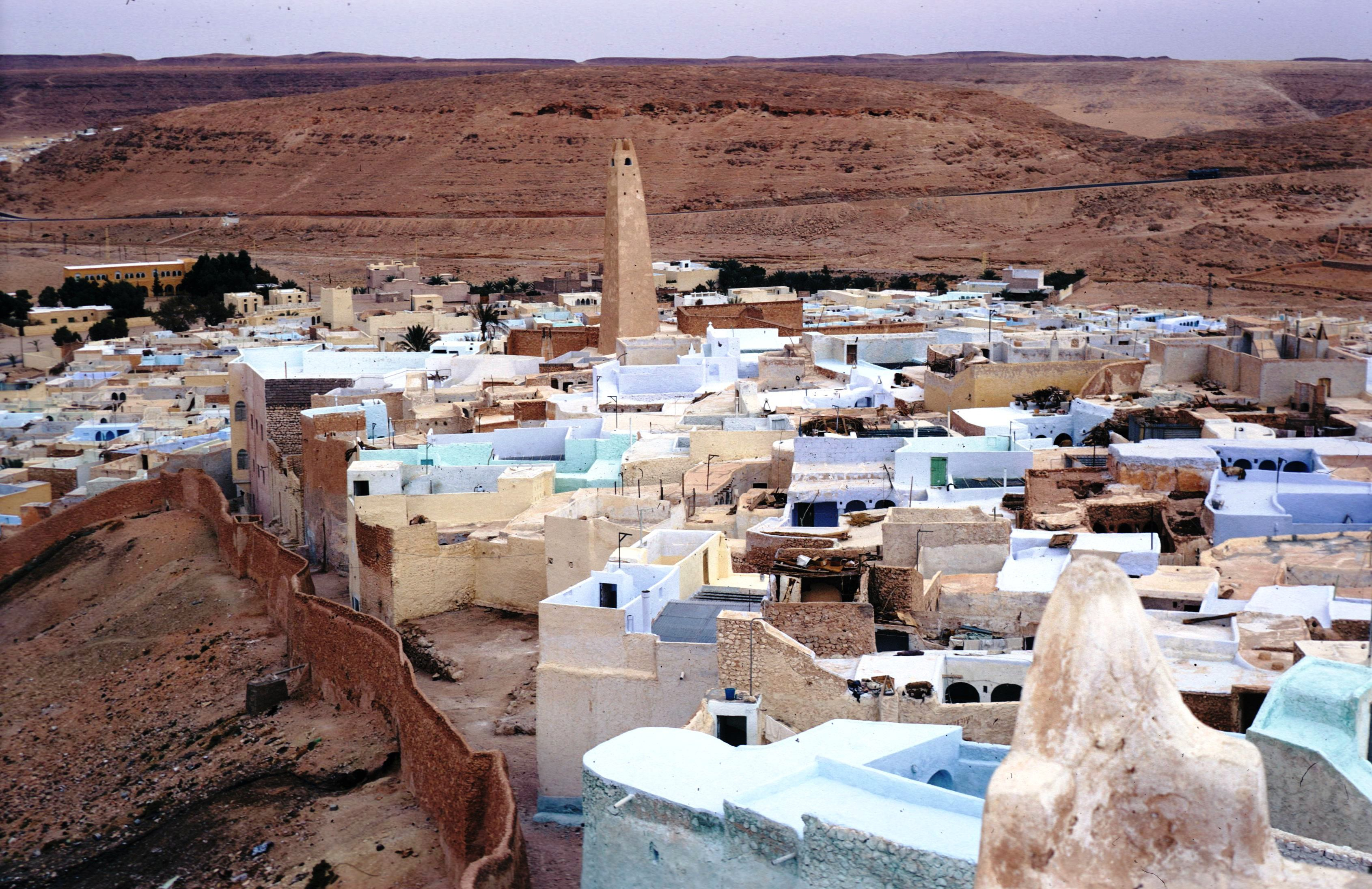 Beni Izguen, Algeria